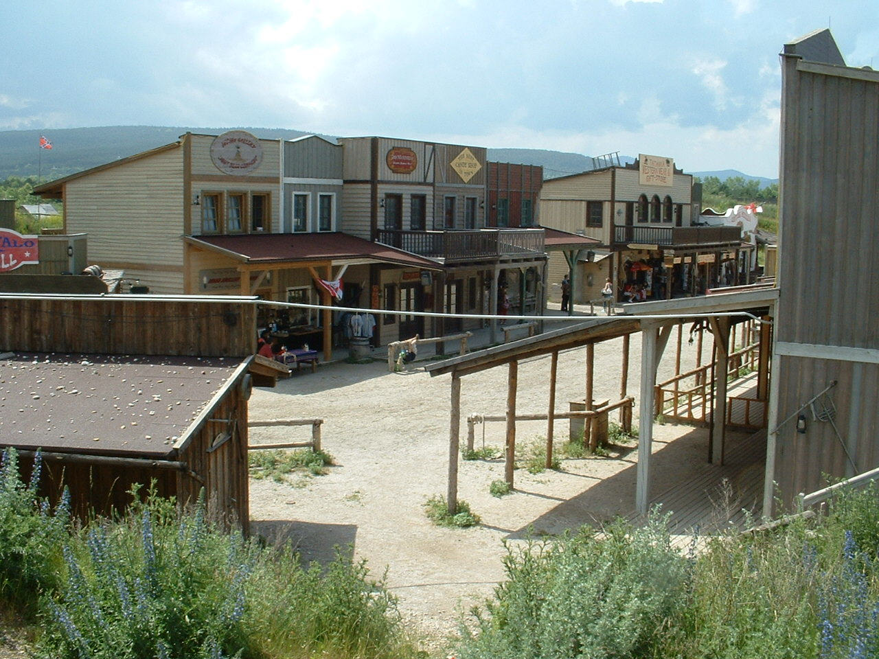 A view of the No Name City in Wöllersdorf near Vienna